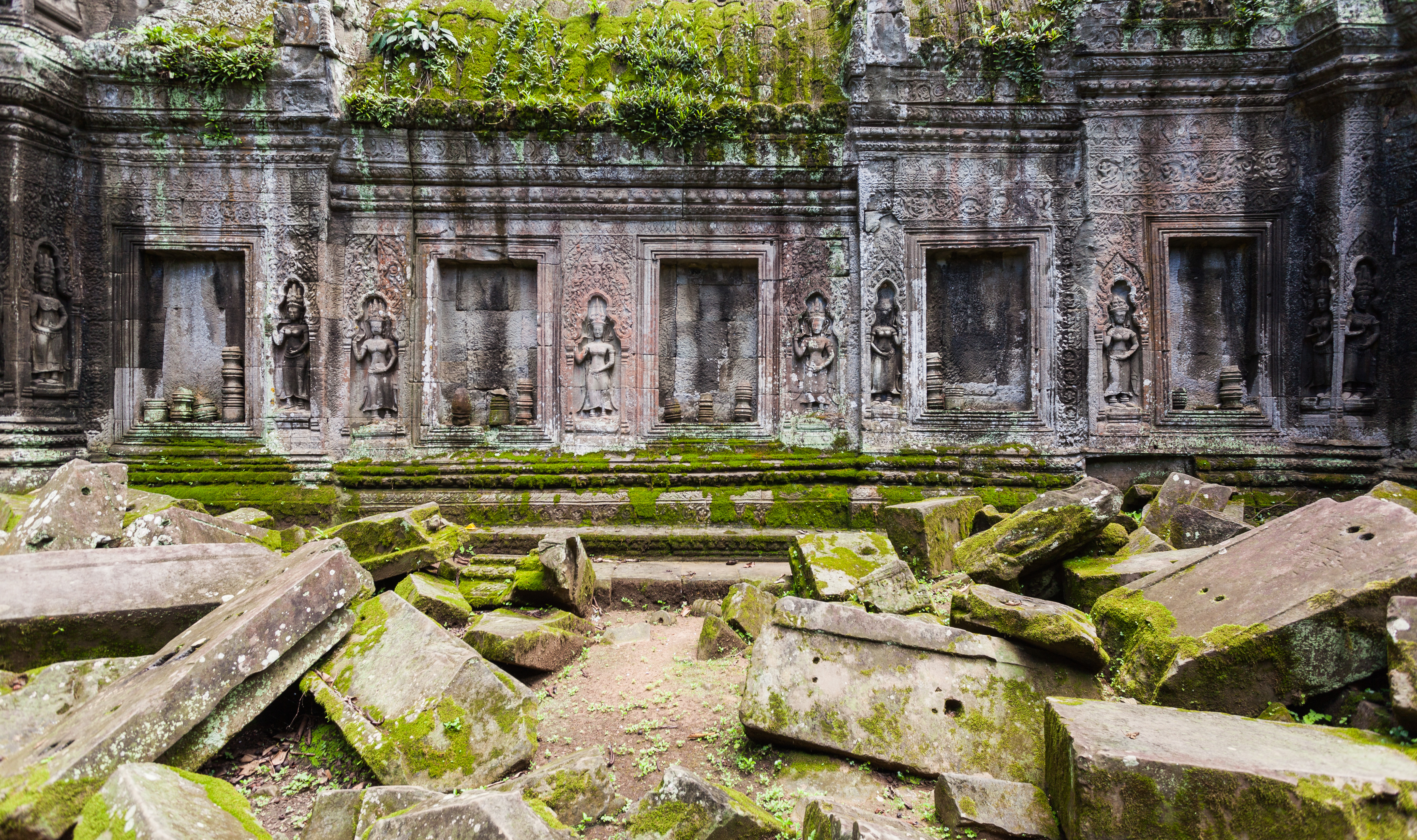 Ta Phrom, Angkor, Cambodia